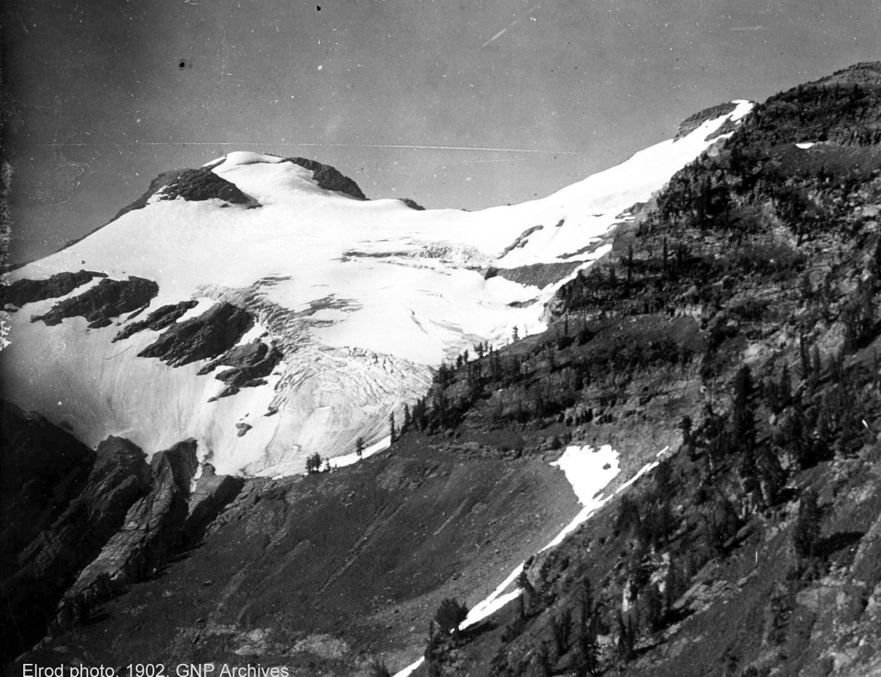 Grant Glacier, Montana — size as seen in 1902. Located in Flathead National Forest, Montana.